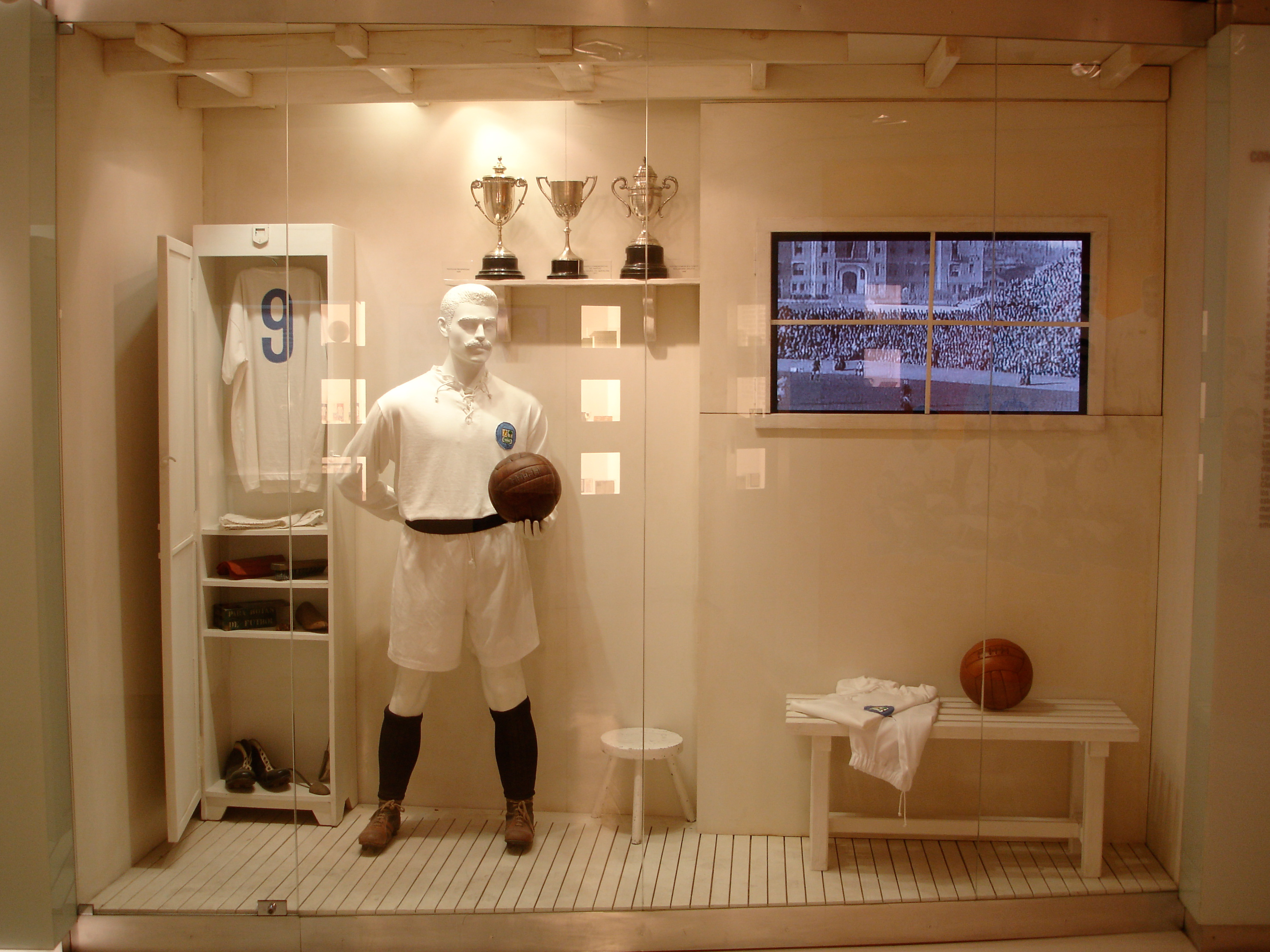 Old changing room